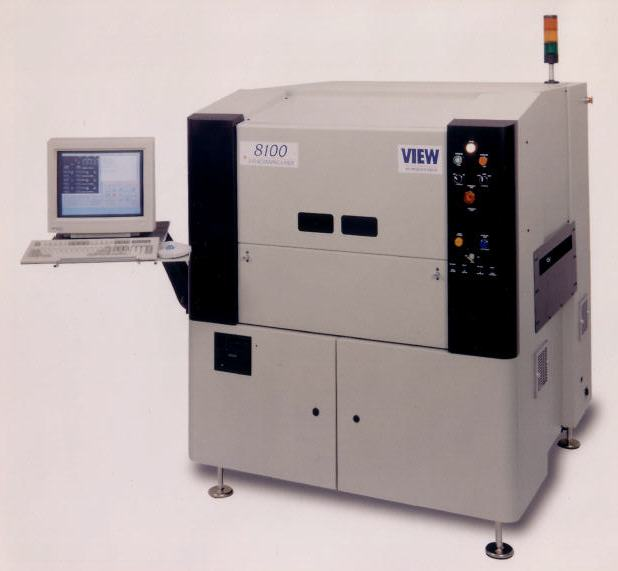 A VIEW Engineering, Inc. 8100 system. This is an automated SMT (Surface Mount Technology) manufacturing process characterization and control system.